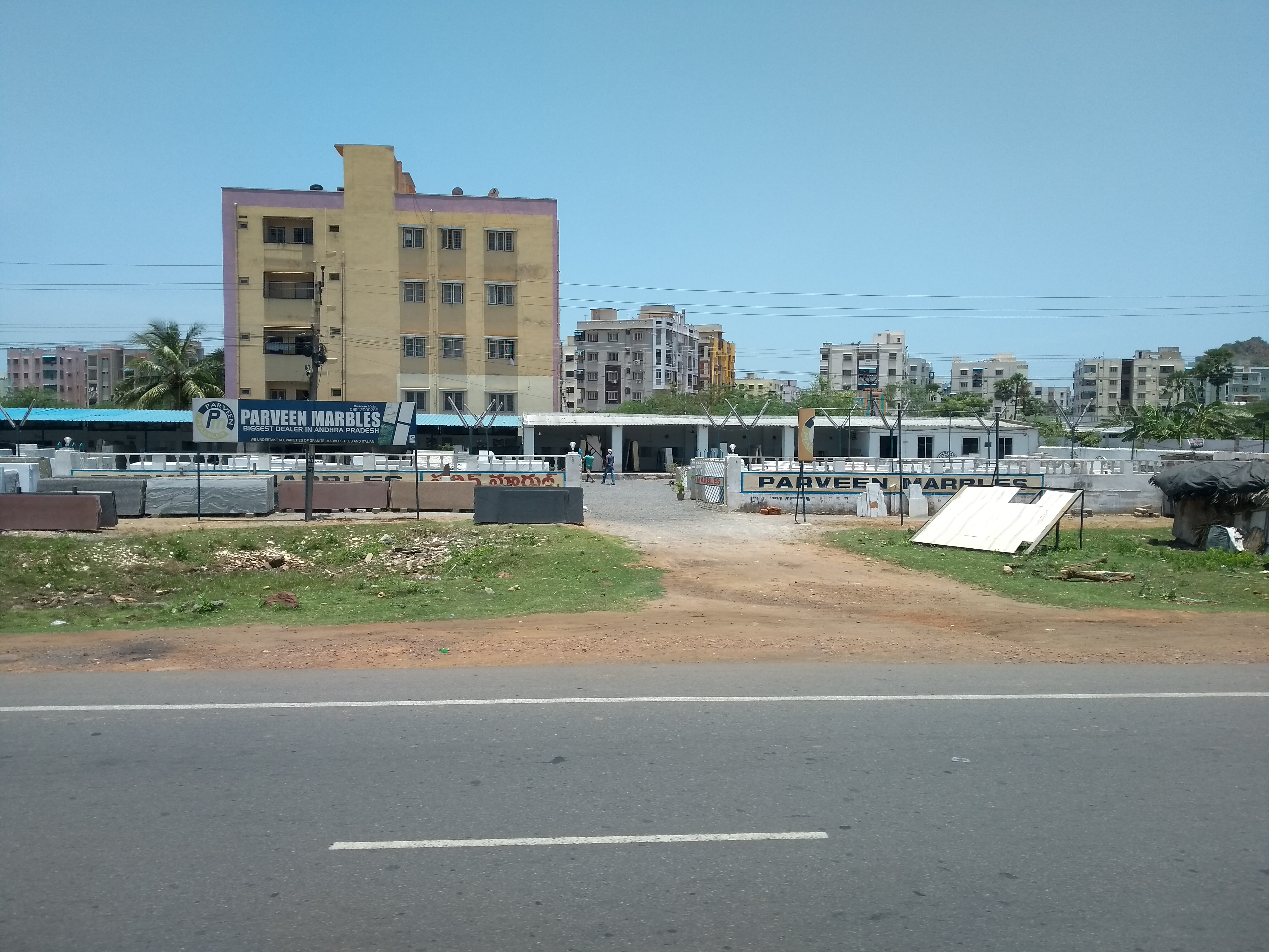 Aganampudi1